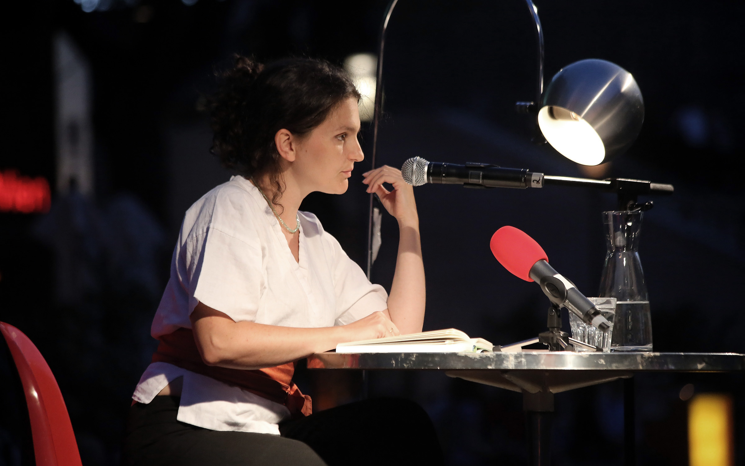 Barbara Aschenwald reading from her novel 'Omka', o-töne 2013 at Museumsquartier in Vienna.